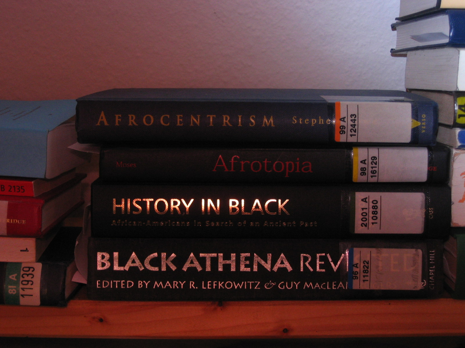 Pile of books on Afrocentrism.